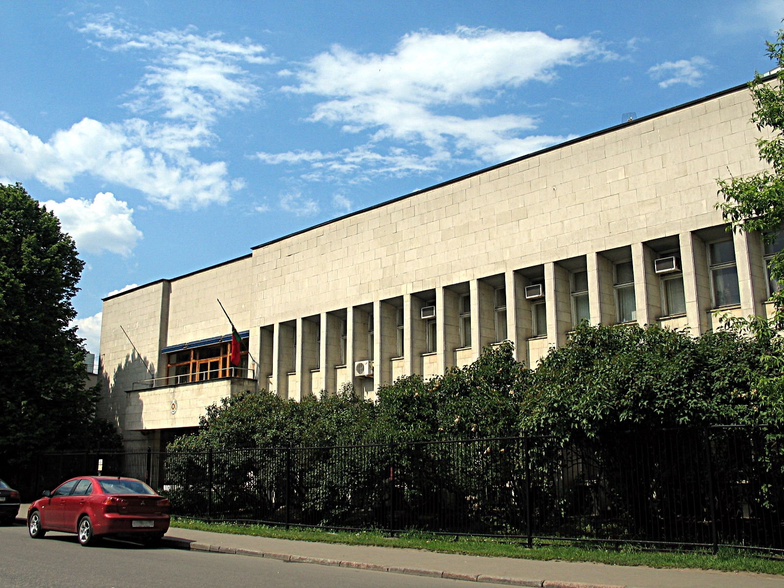 Embassy of Portugal in Moscow (Botanichesky Lane, 1/3)